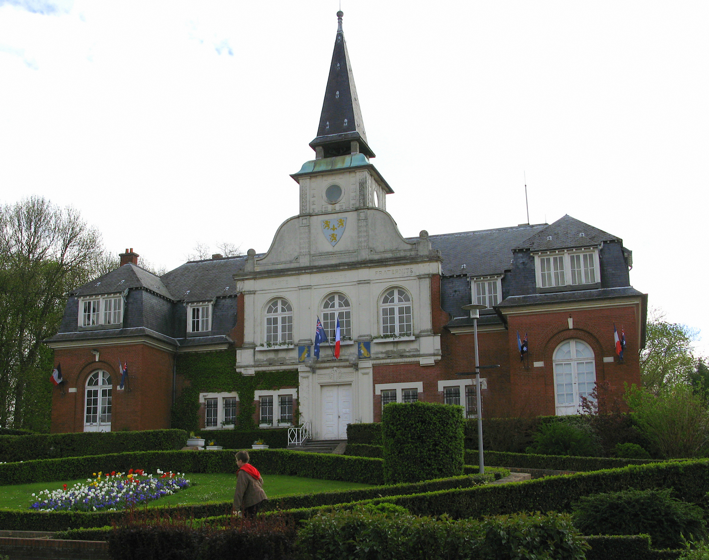 Town Hall, Villers-Bretonneux, France (image has been altered to remove tilt, 2014-4-22, by User:Sardaka)